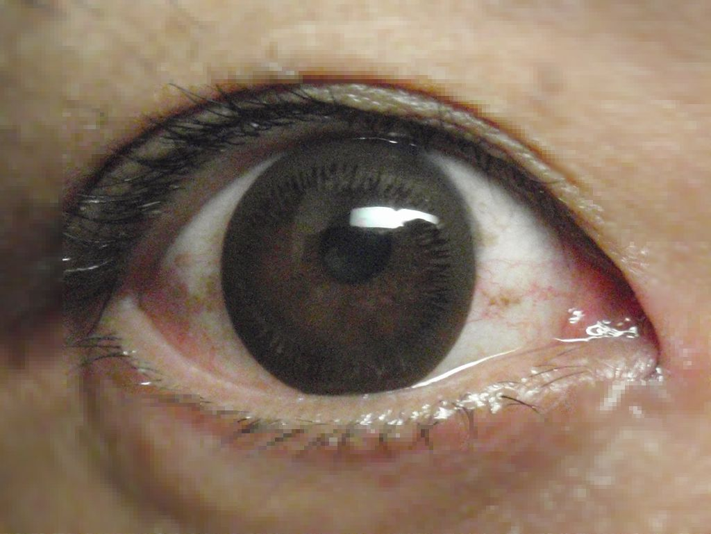 Color contact lens on eye(chocola color)